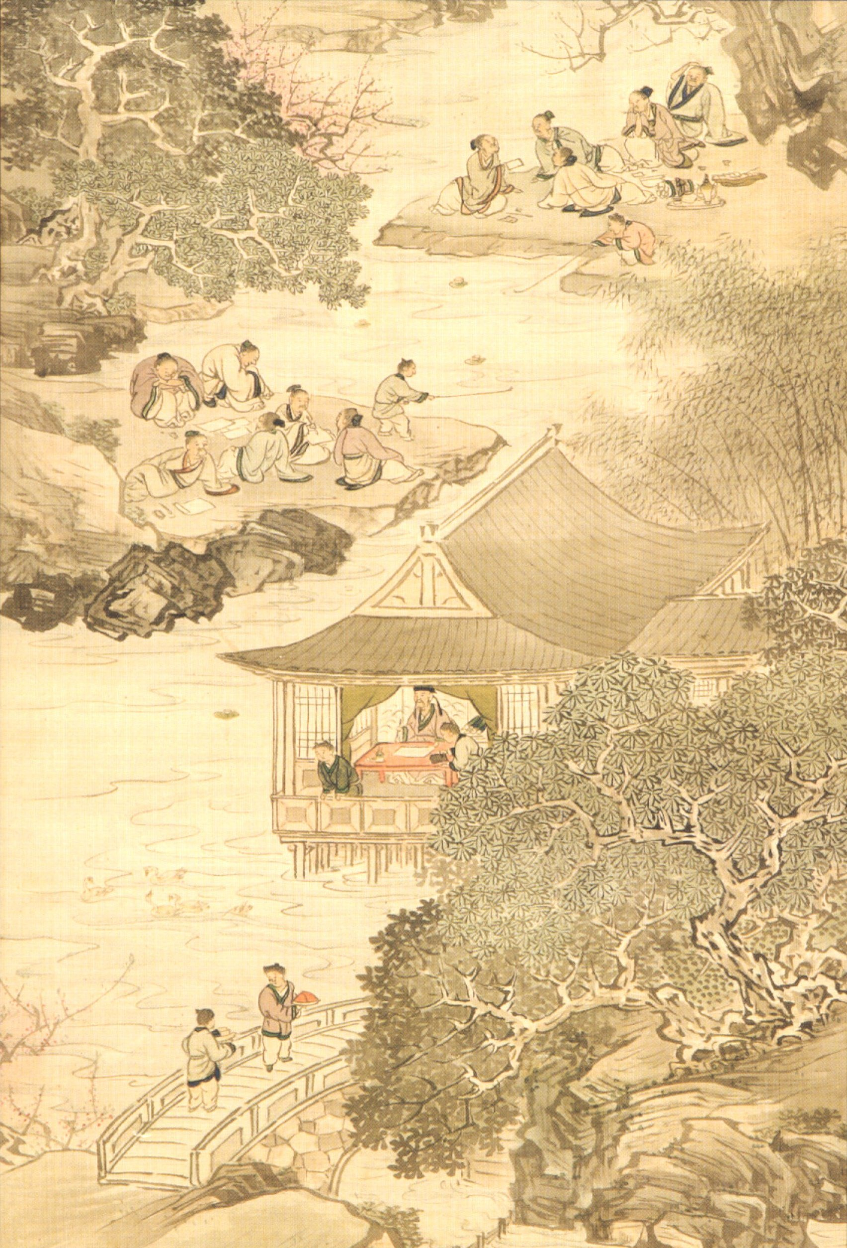 Meandering Stream at Lanting (detail), painting by Suzuki Fuyō, 1806, Honolulu Academy of Arts